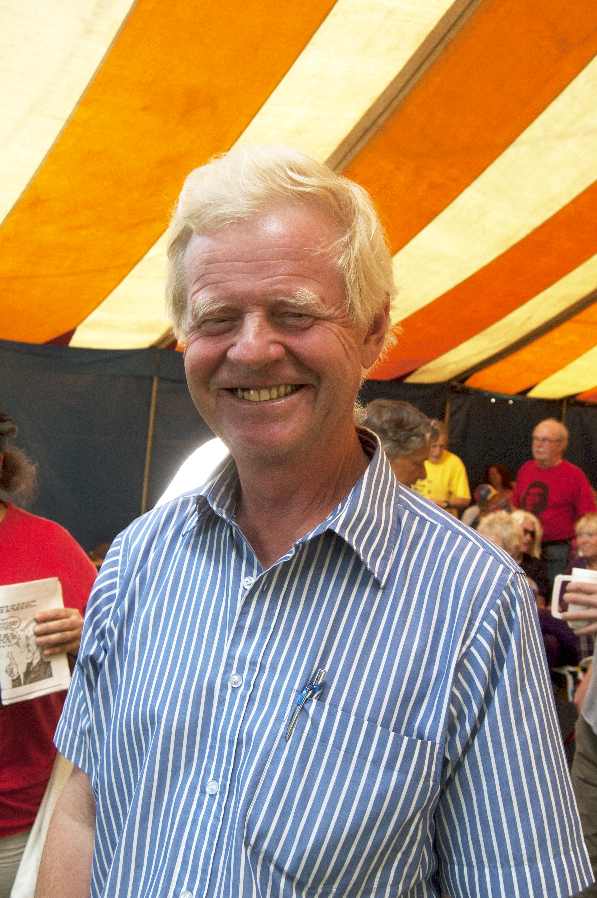 The chairman of the communist party in Sweden at their summer camp 2011